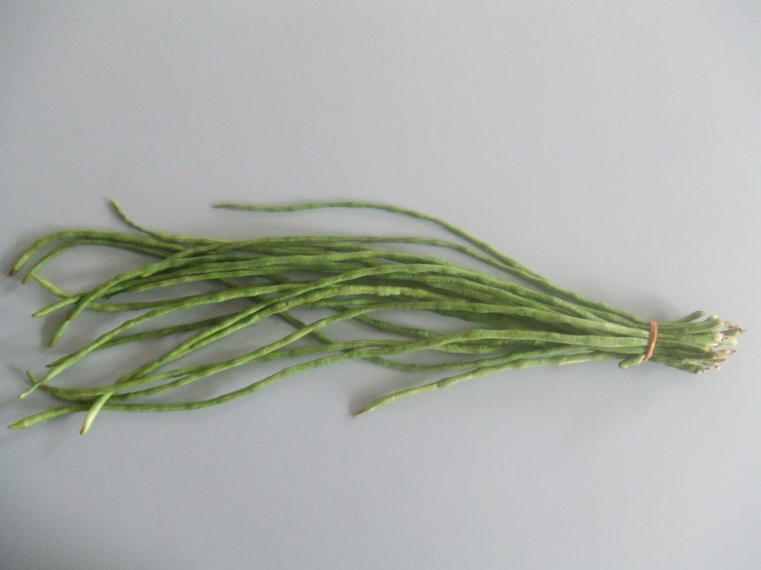 Better picture of Vigna unguiculata, bought at the Binnenrotte Market in Rotterdam, The Netherlands.